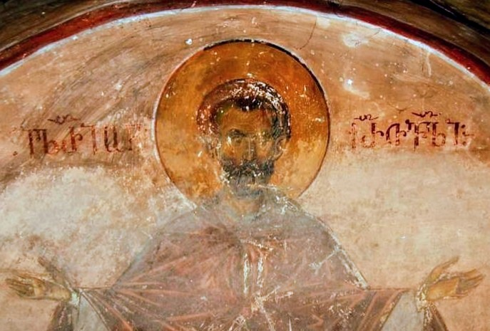 Ubisi fresco of Hilarion the Iberian